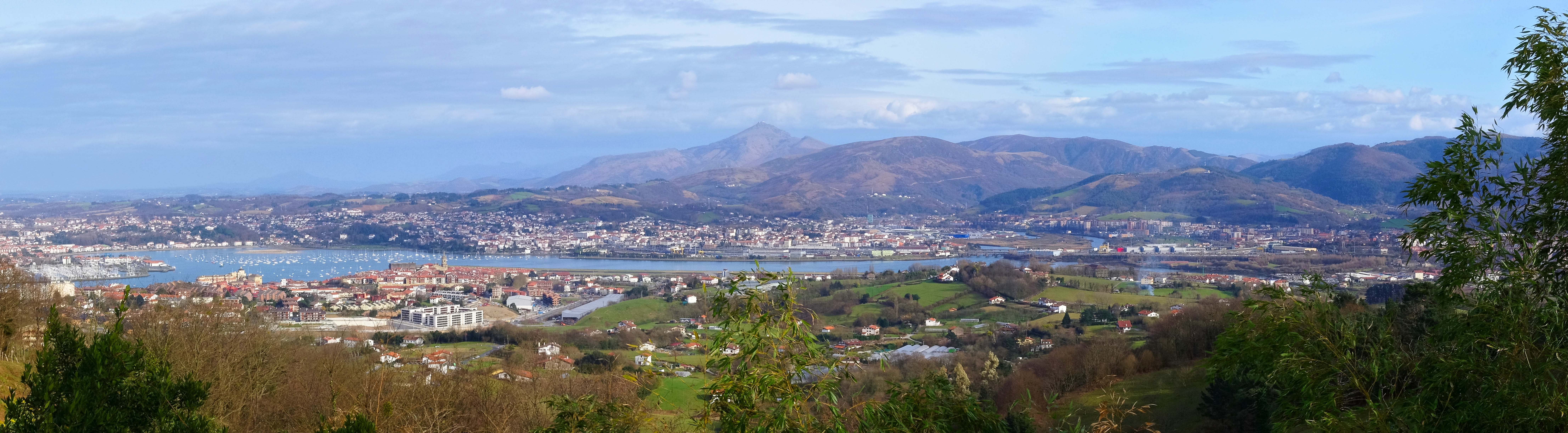 Chigundy bay : Hendaye, Hondarribia, Irun along the Bidassoa estuary. France and Spain. View taken from the Guadalupe hermitage (Spain)